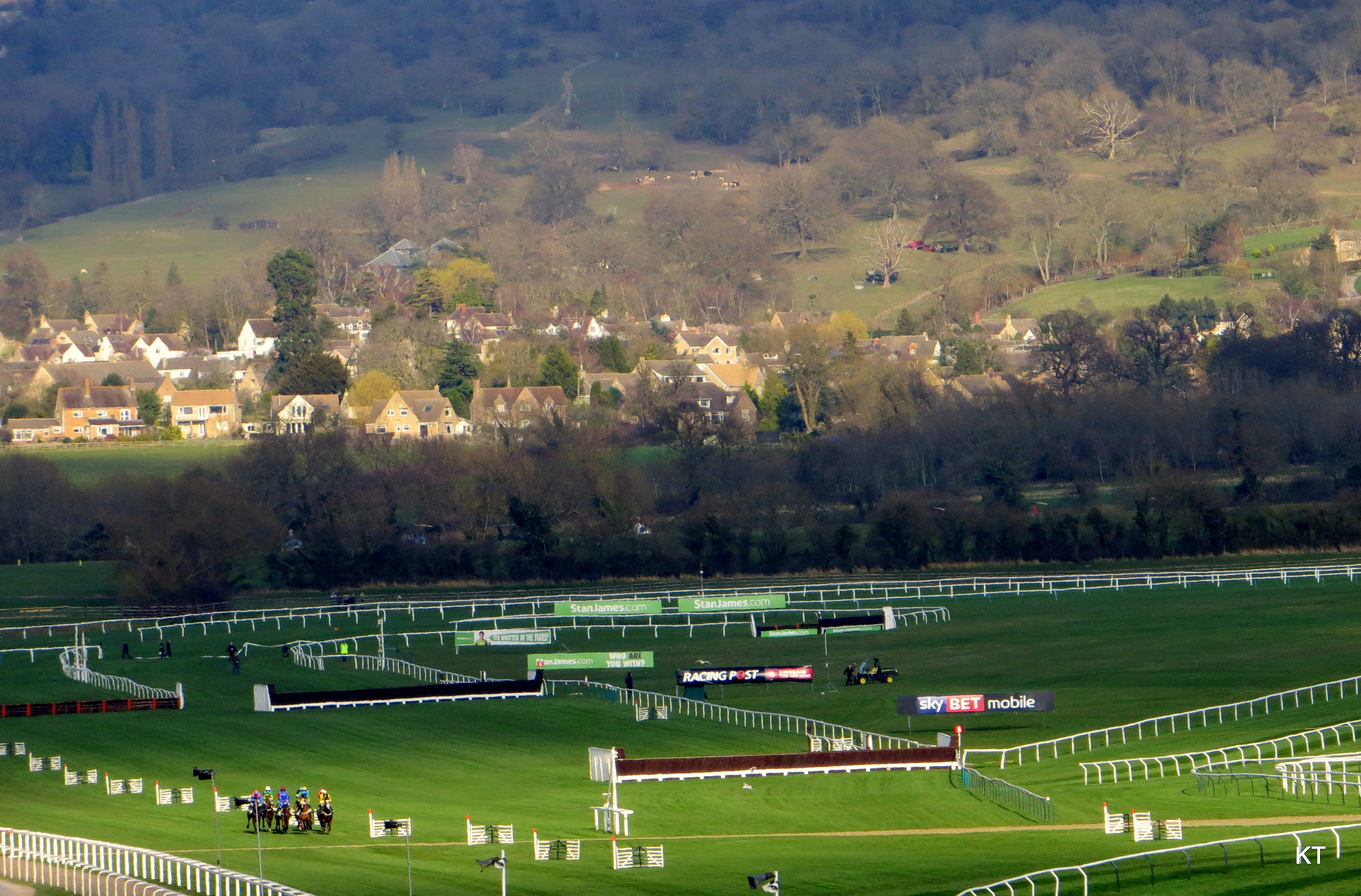 Champion Hurdle